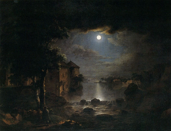 Karel Postl, Night (oil-paint), serie called Four parts of the day